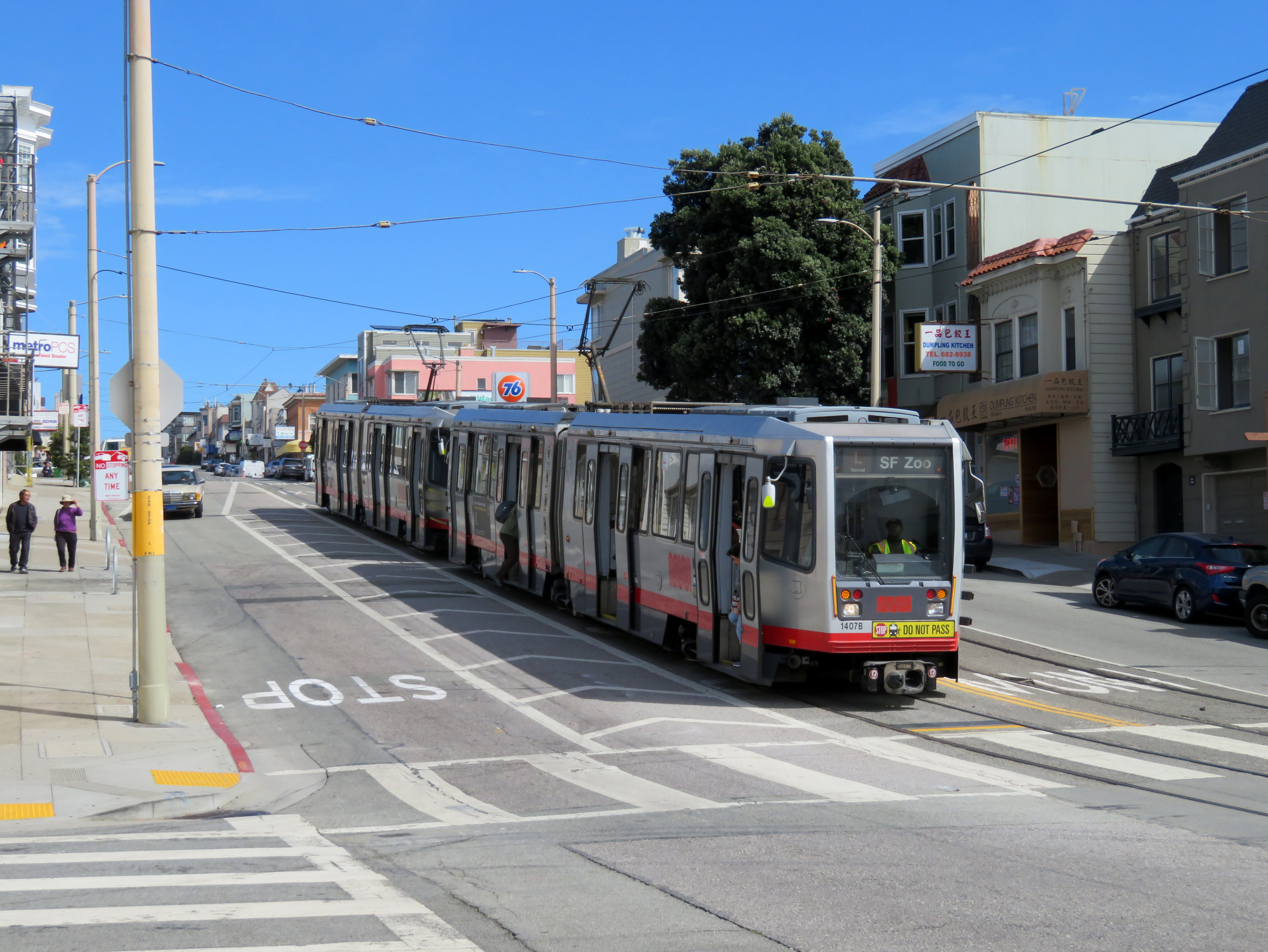 Outbound train at Taraval and 30th Avenue in September 2018